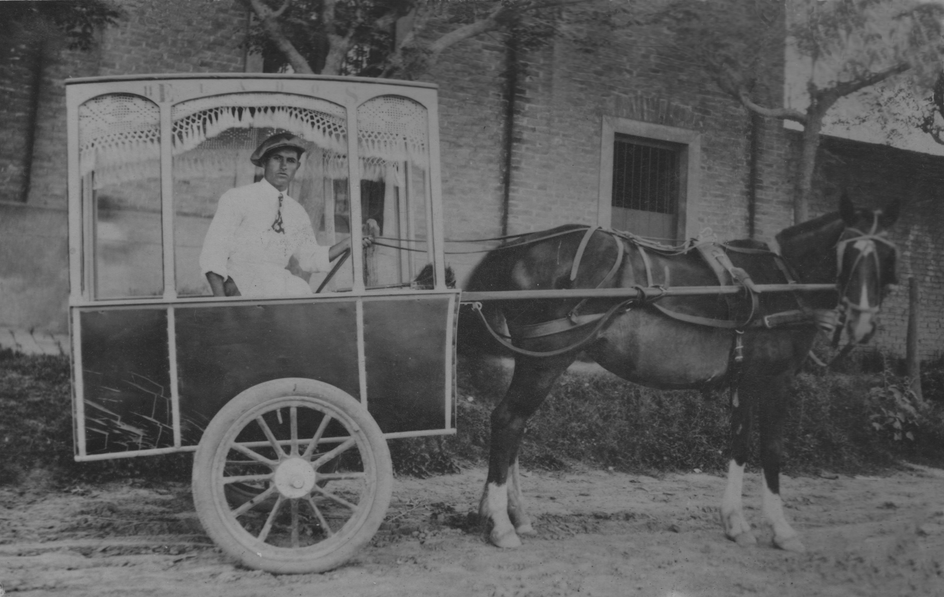 Jorge Mateo Bosco, son of Italians, selling ice cream in a horse-drawn cart, in the town of Cintra, Córdoba, Argentina in 1930.